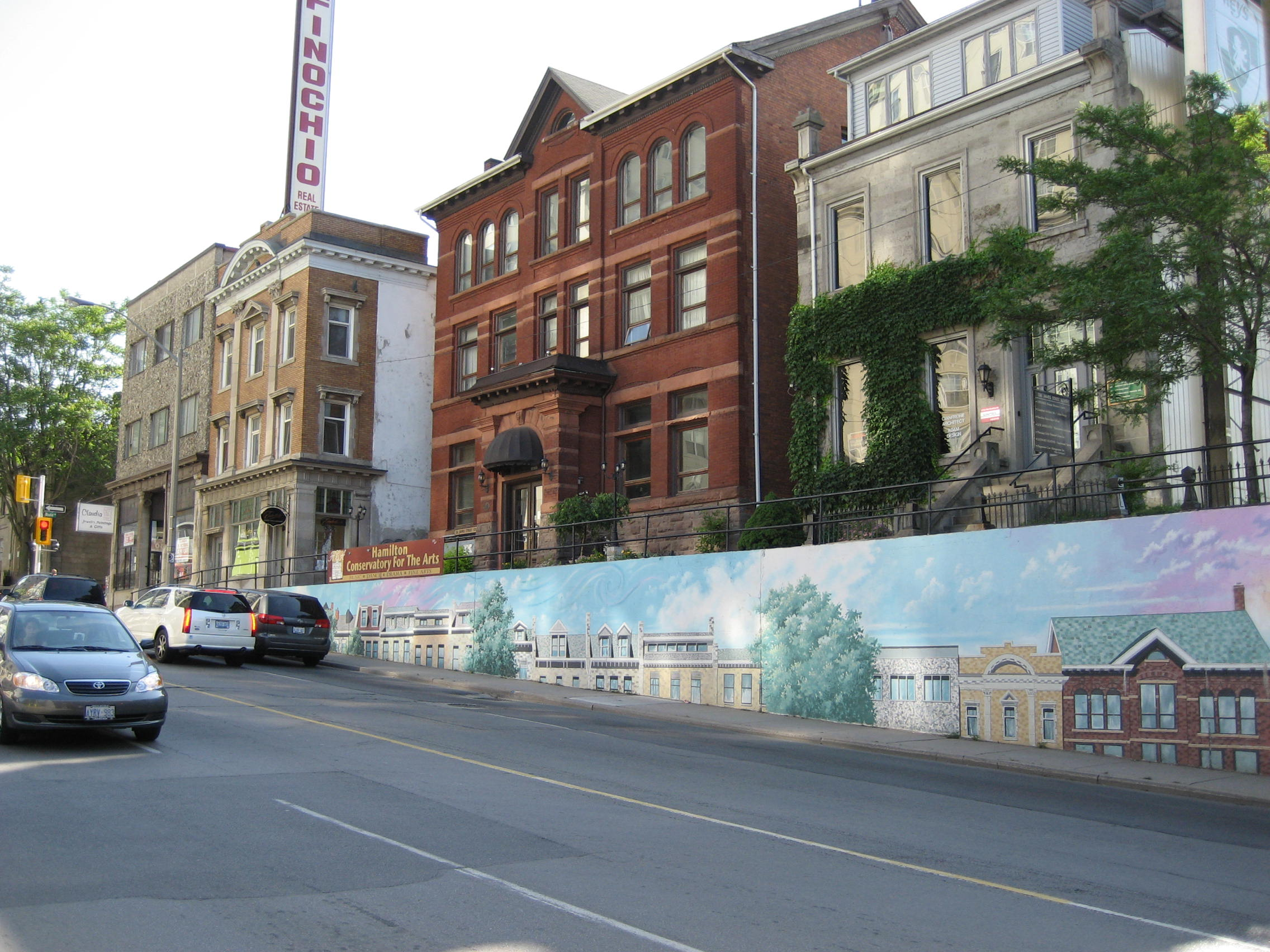 James Street, South of the T.H. & B. Railway Bridge, downtown Hamilton, Ontario